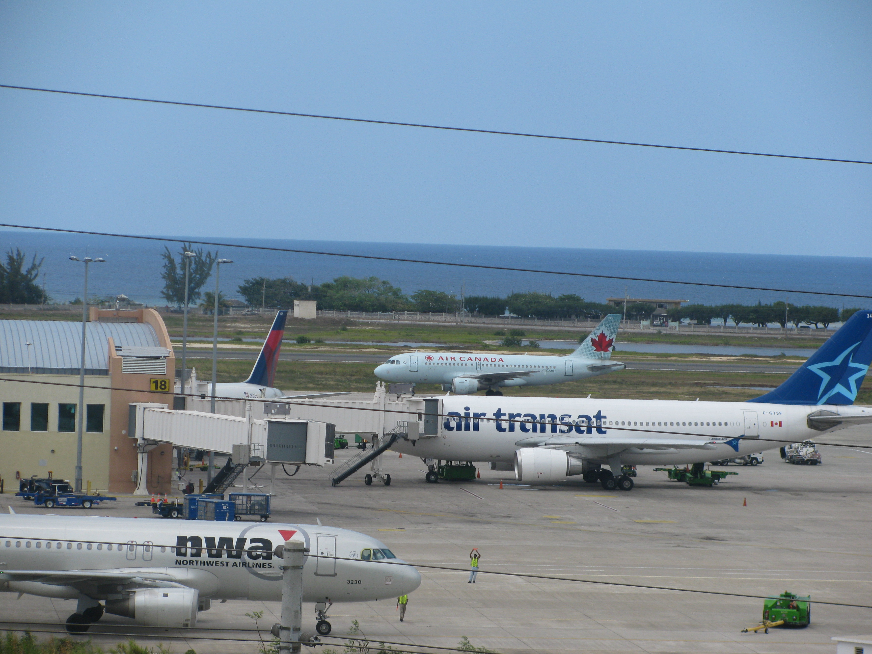 Peak hour traffic at Sangster International Airport